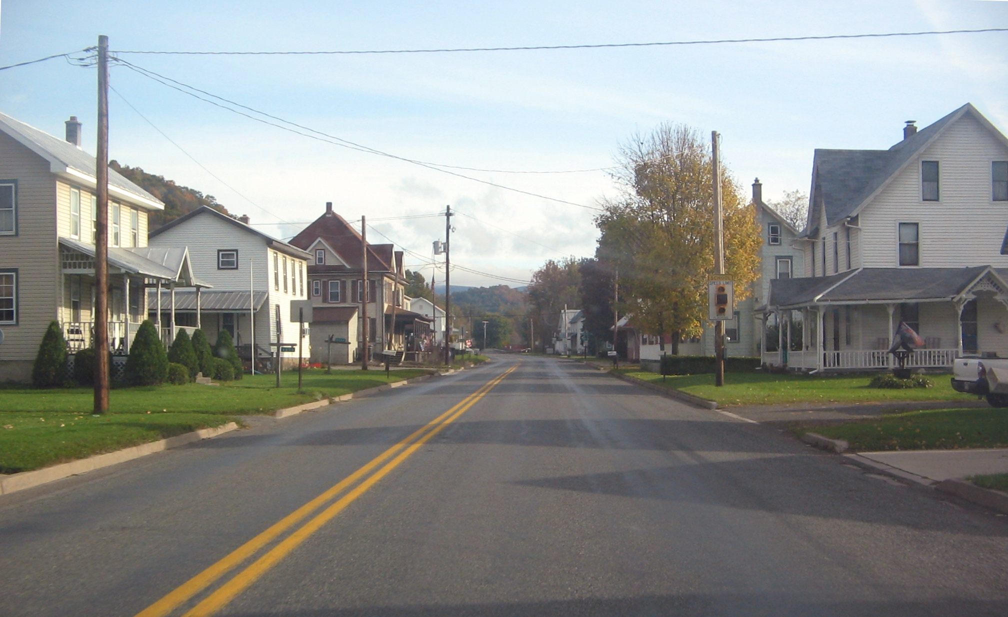 View east on Pennsylvania Route 118 in the village of Lairdsville, Franklin Township, Lycoming County, Pennsylvania in the USA